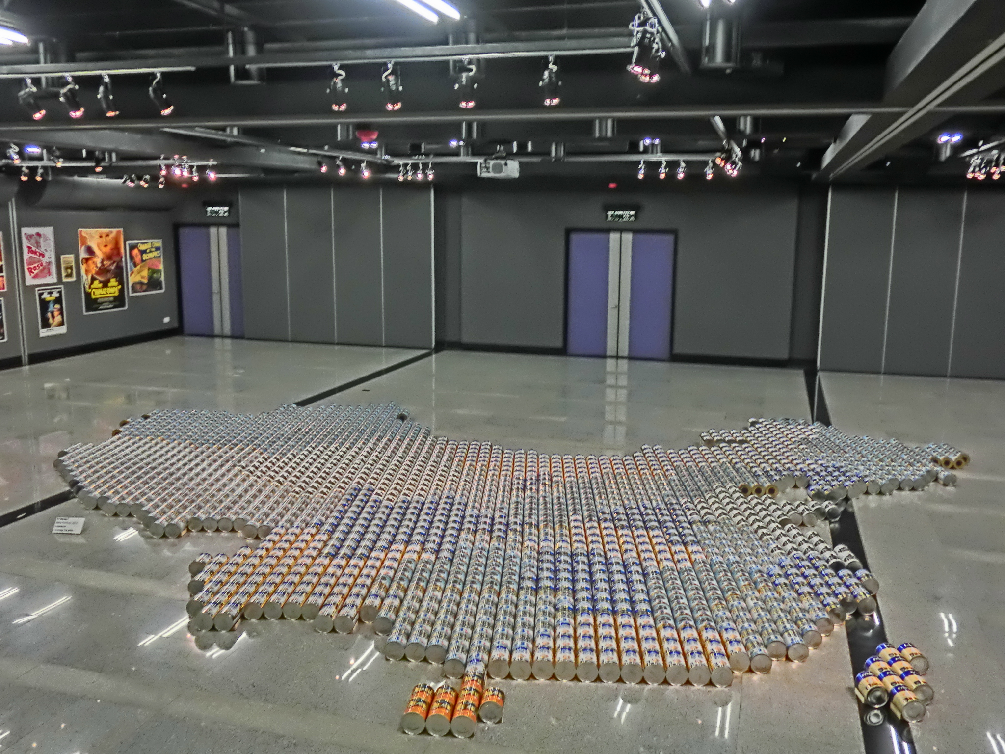 Installation art of Mr Ai Weiwei - Baby Formula, 2013